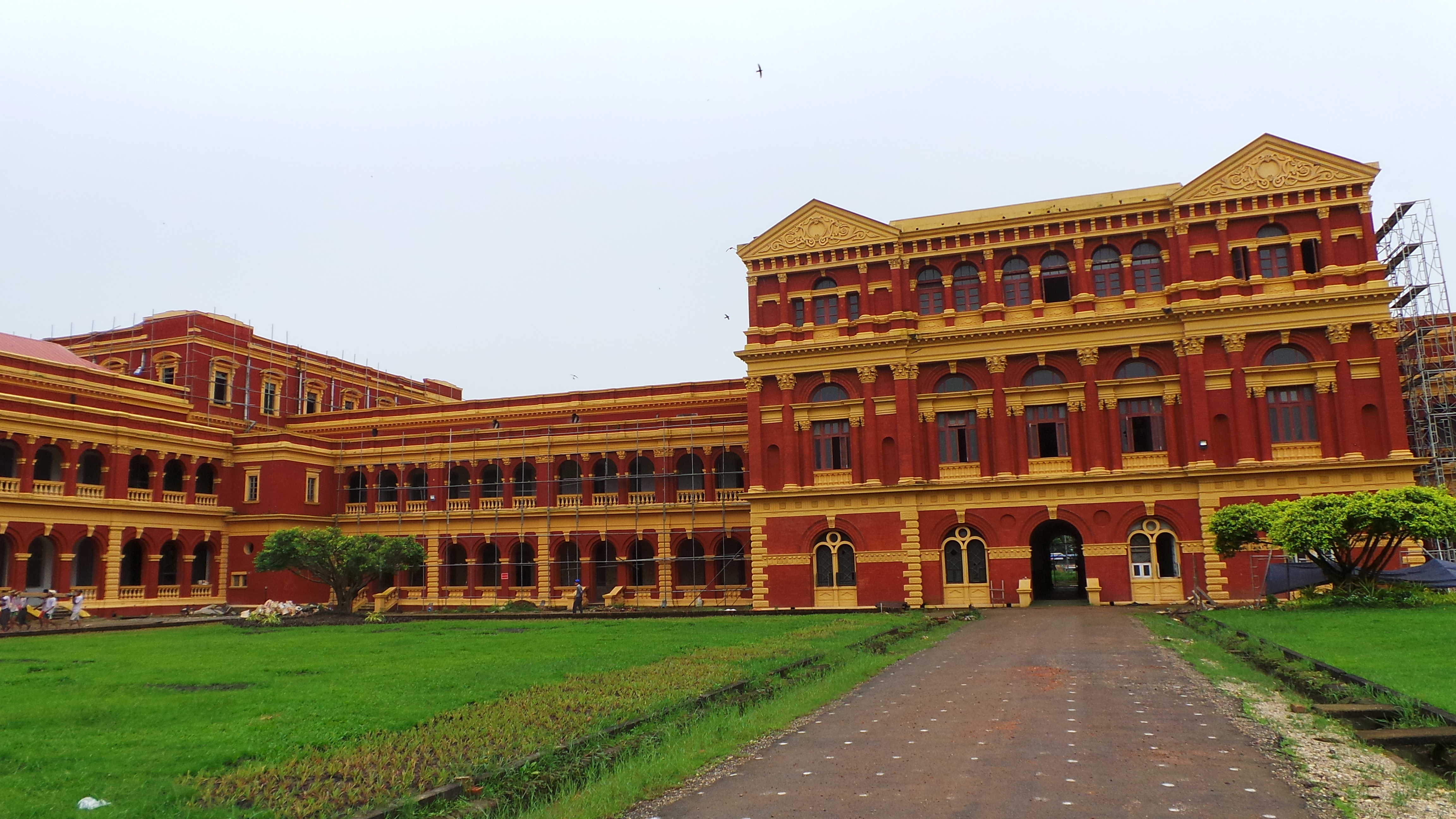 The Ministers' Office buildings, Yangon မြန်မာဘာသာ: ဝန်ကြီးများရုံးရှိ အဆောက်အဦများ၊ ရန်ကုန်